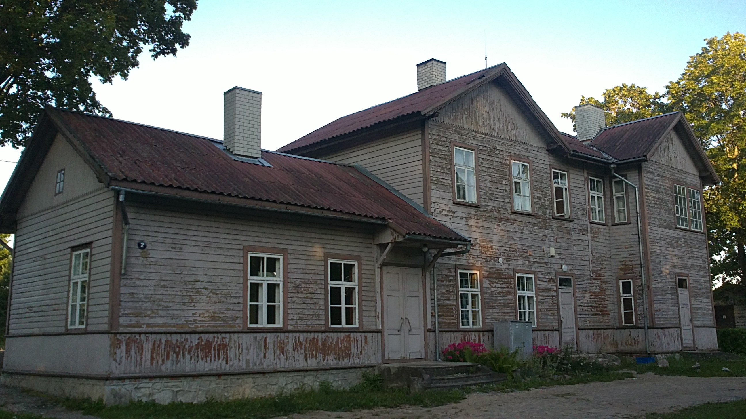 The Võhma railway station, initially built in 1901. The right-side wing, as seen from the town, was added in 1926 (notice the array of smaller window squares).